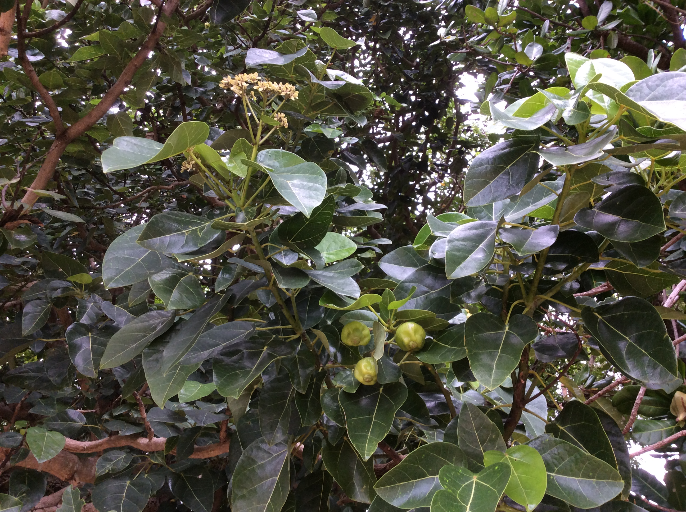 Flowers and unripe fruits of Hernandia nymphaeifolia, Lawaki on Beqa Island, Fiji